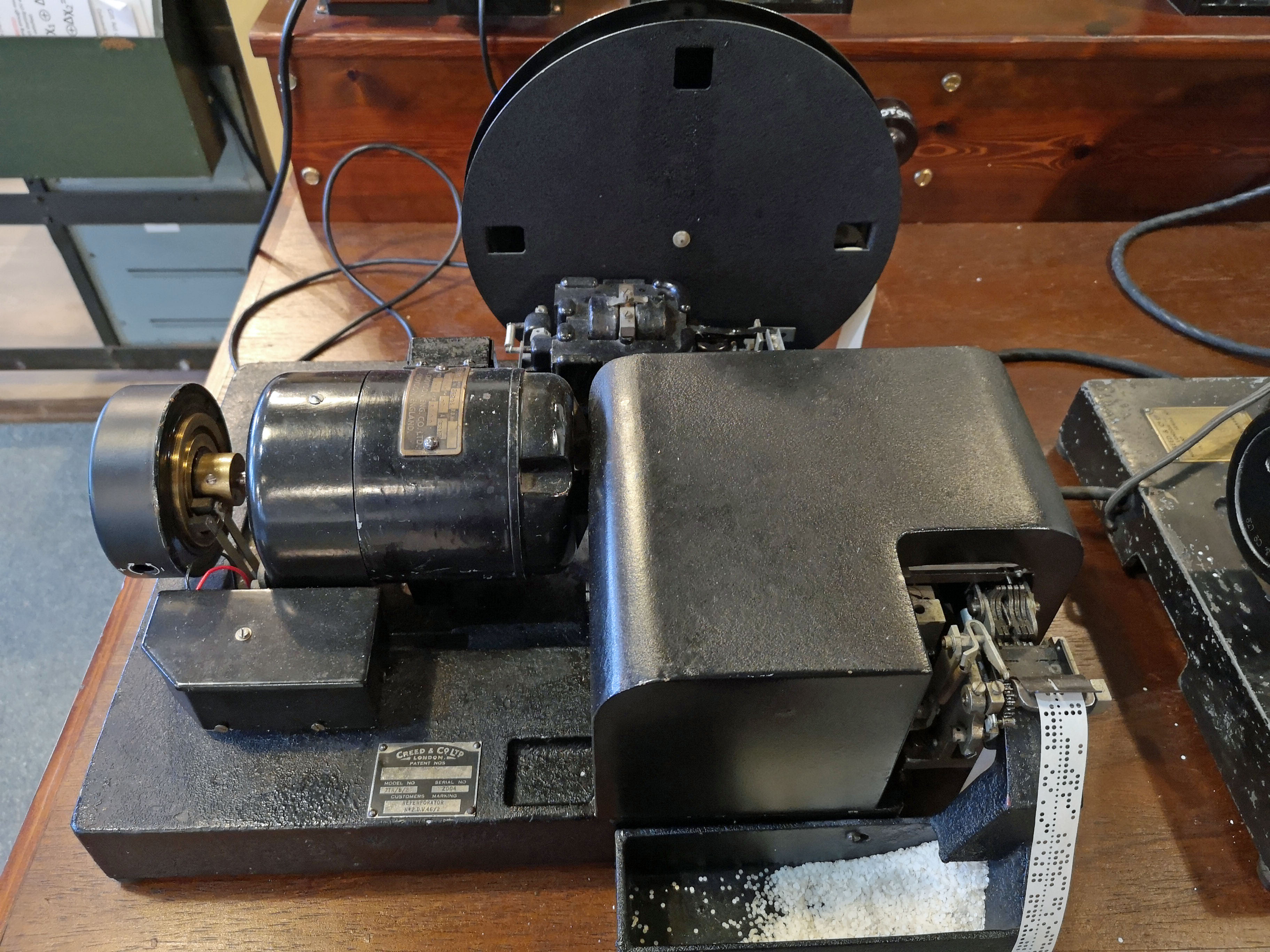 Creed model 7TR/B/2 receiving perforator (reperforator) - or 5-hole paper tape punch - as used by the UK General Post Office for its telegraphy service. Photographed at The National Museum of Computing on Bletchley Park, England.